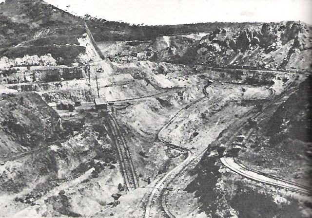 Belgian Congo Katanga copper mine